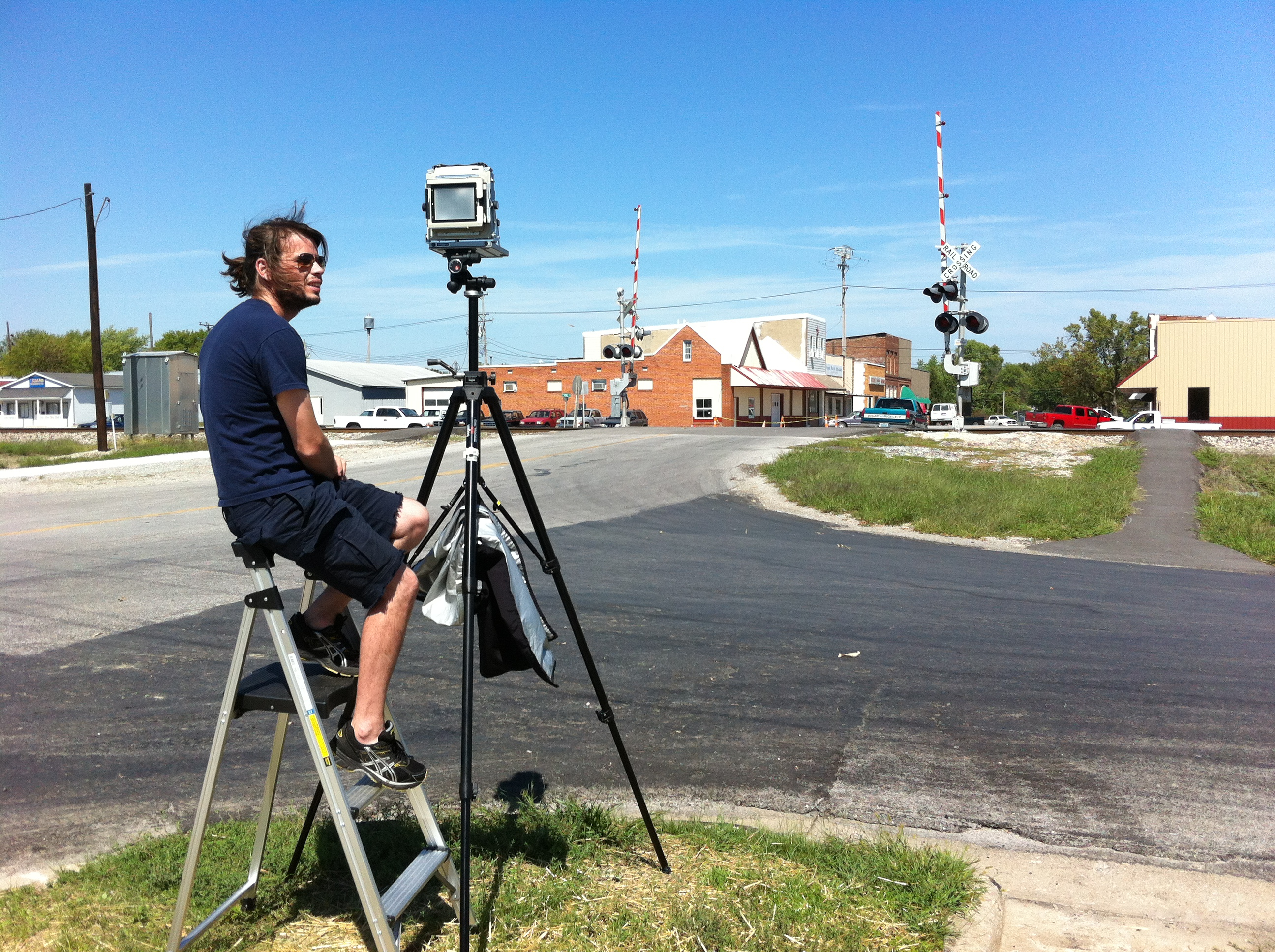 Making of Monsanto: A Photographic Investigation